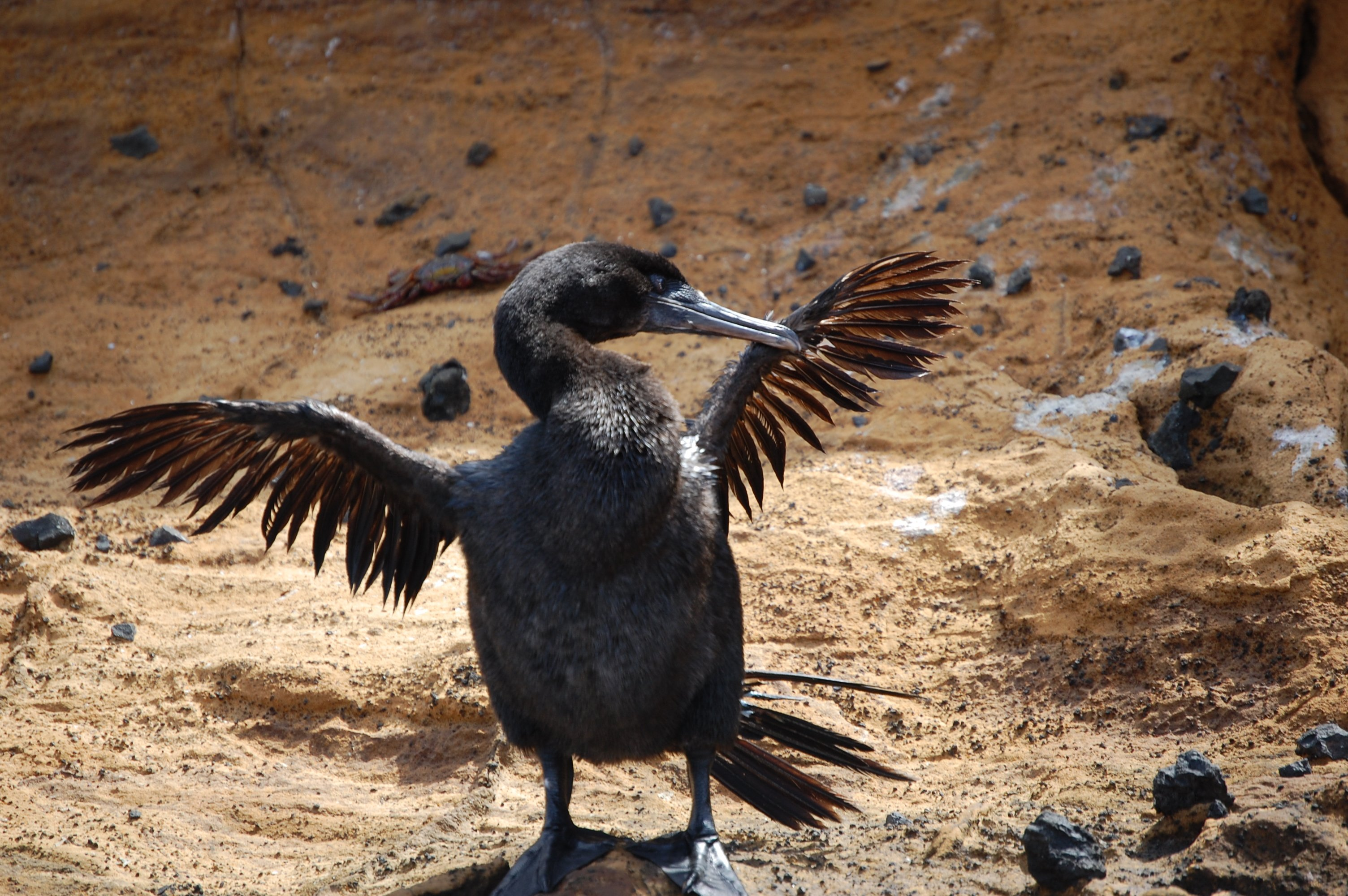 Flightless cormorant drying wings. Ecuador, Galapagos Islands.